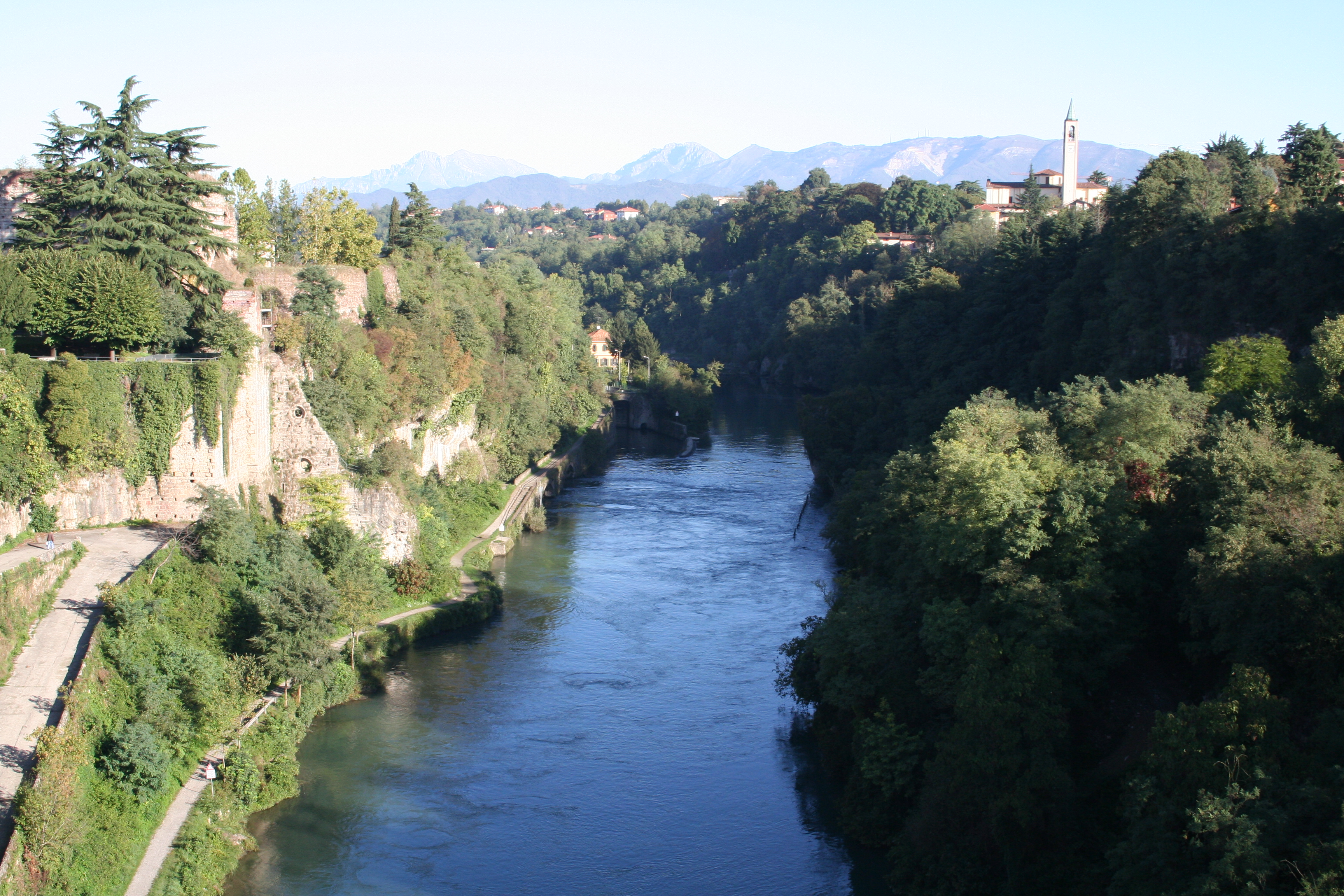 Adda river between Trezzo sull'Adda (right) and Capriate San Gervasio (left)